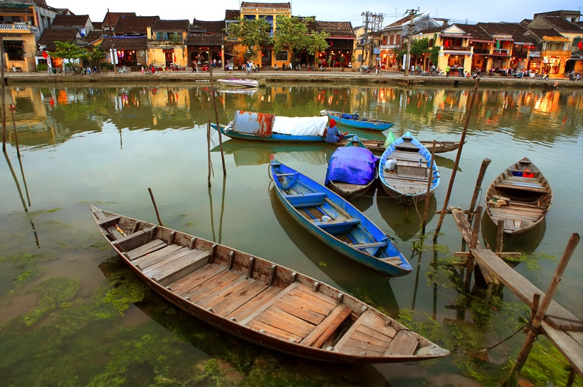 Economic development in a town in the province.